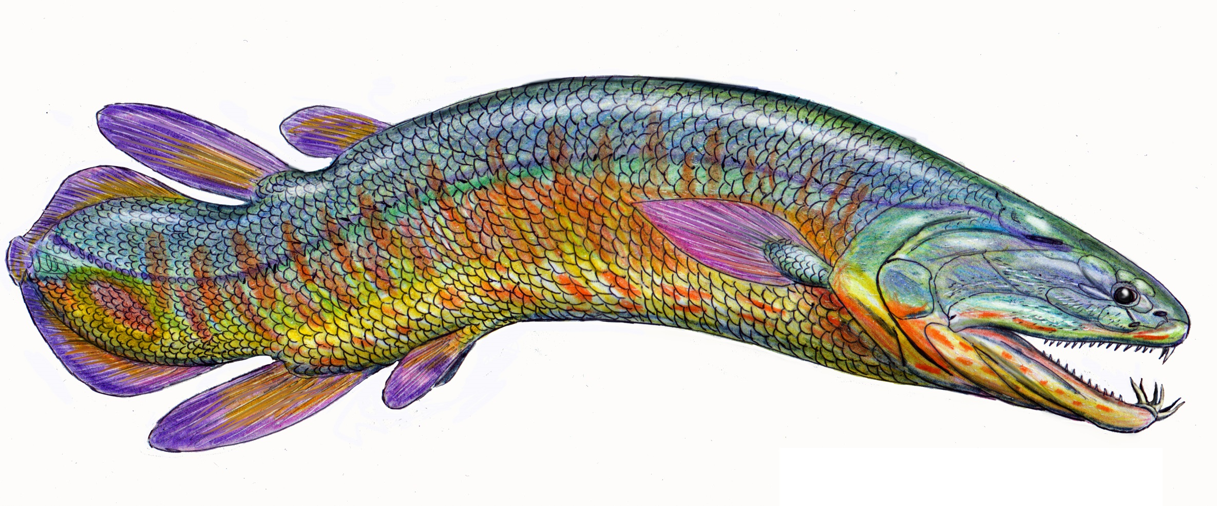 Onychodus, primitive sarcopterygian from Middle Devonian